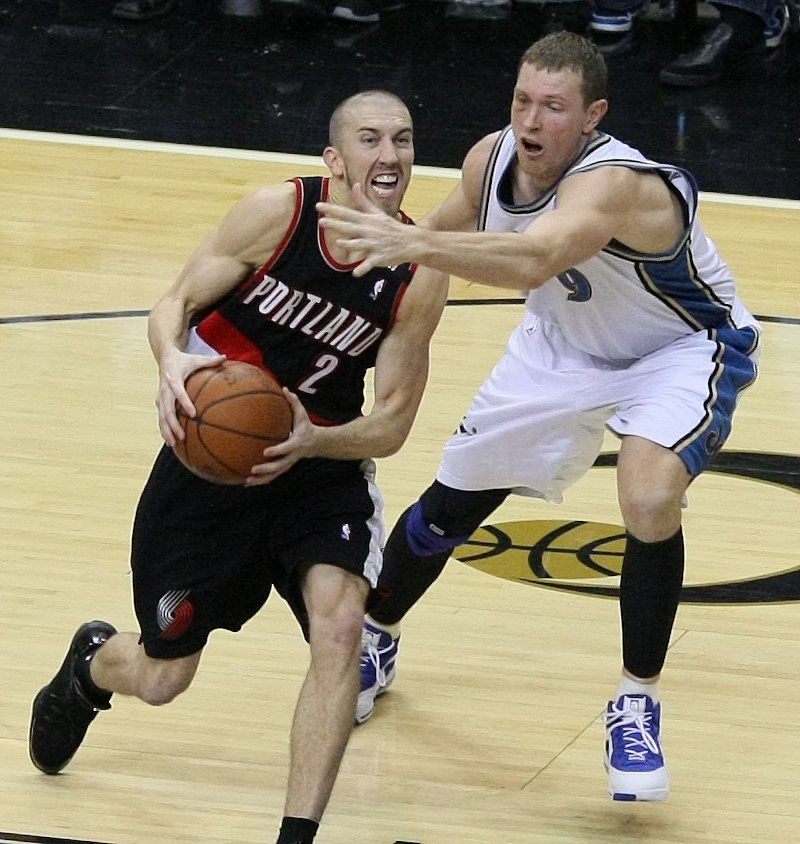 Darius Songaila tries to stop Steve Blake.